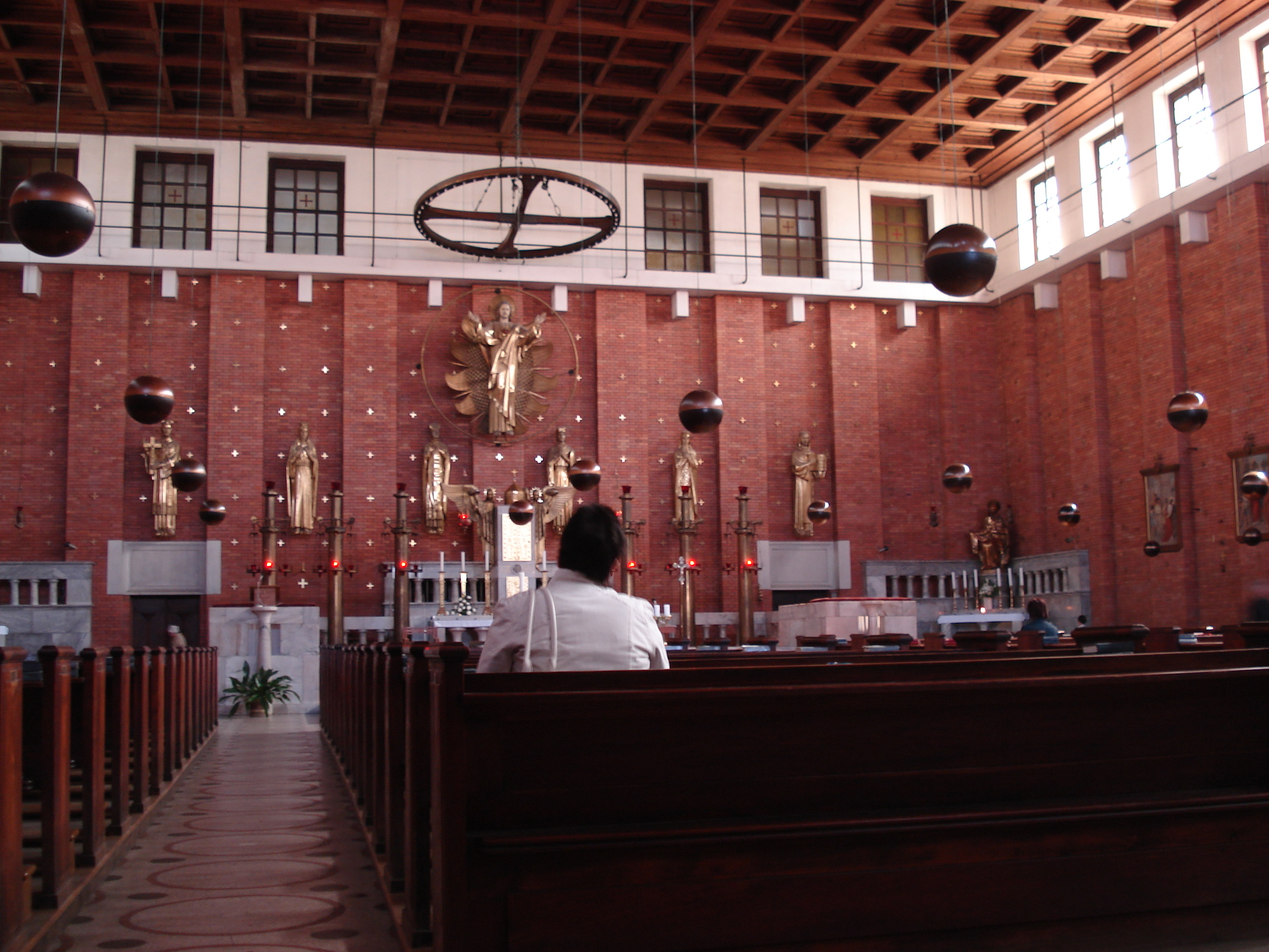 interior of the Church of the Sacred Heart, George of Podebrady square, Prague